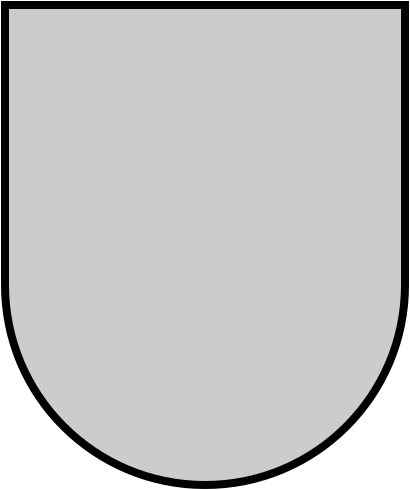 Shield of the municipality of Haute-Sorne, Canton of Jura